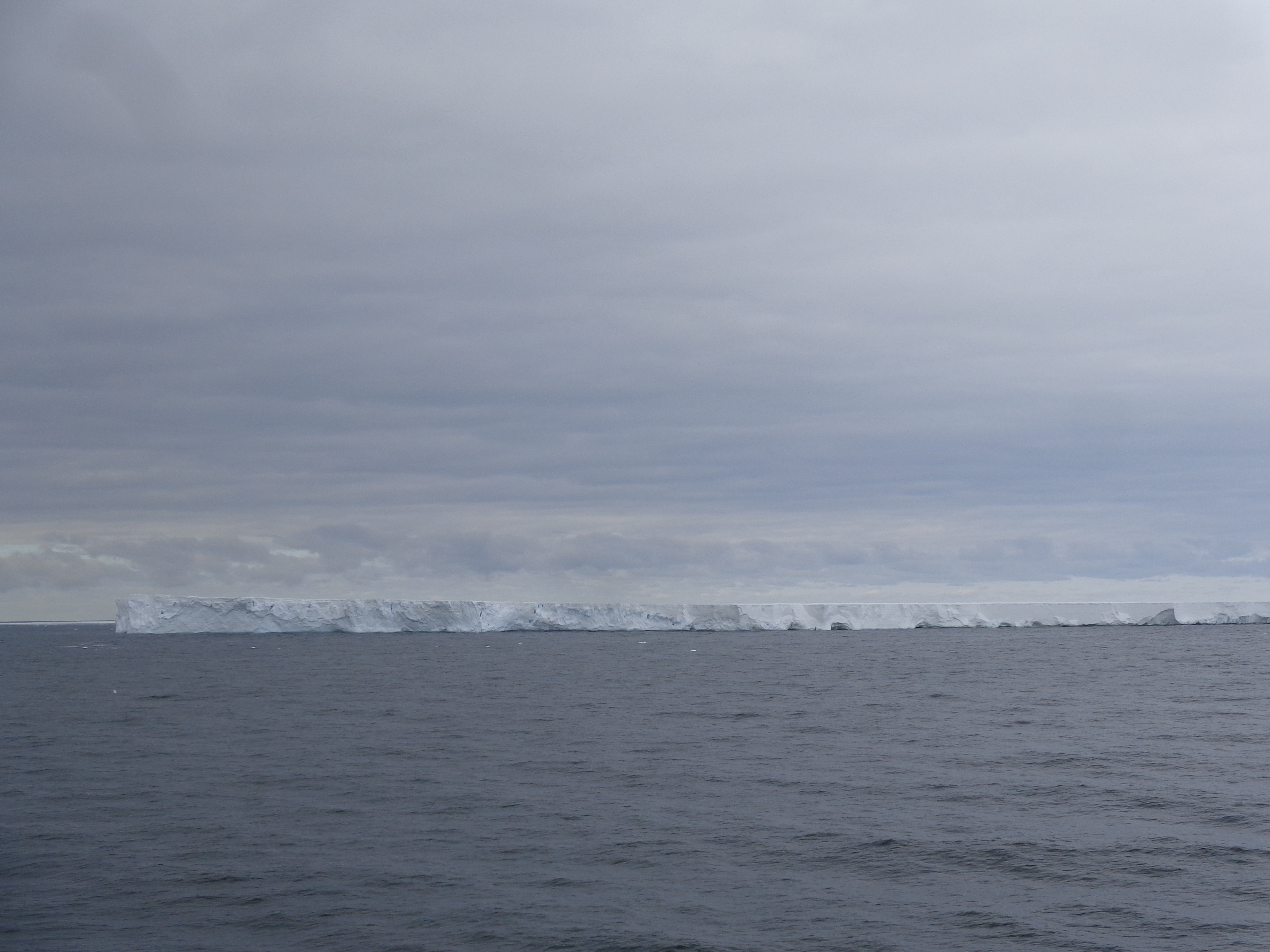 Drygalski Ice Tongue, Ross Sea, Antarctica